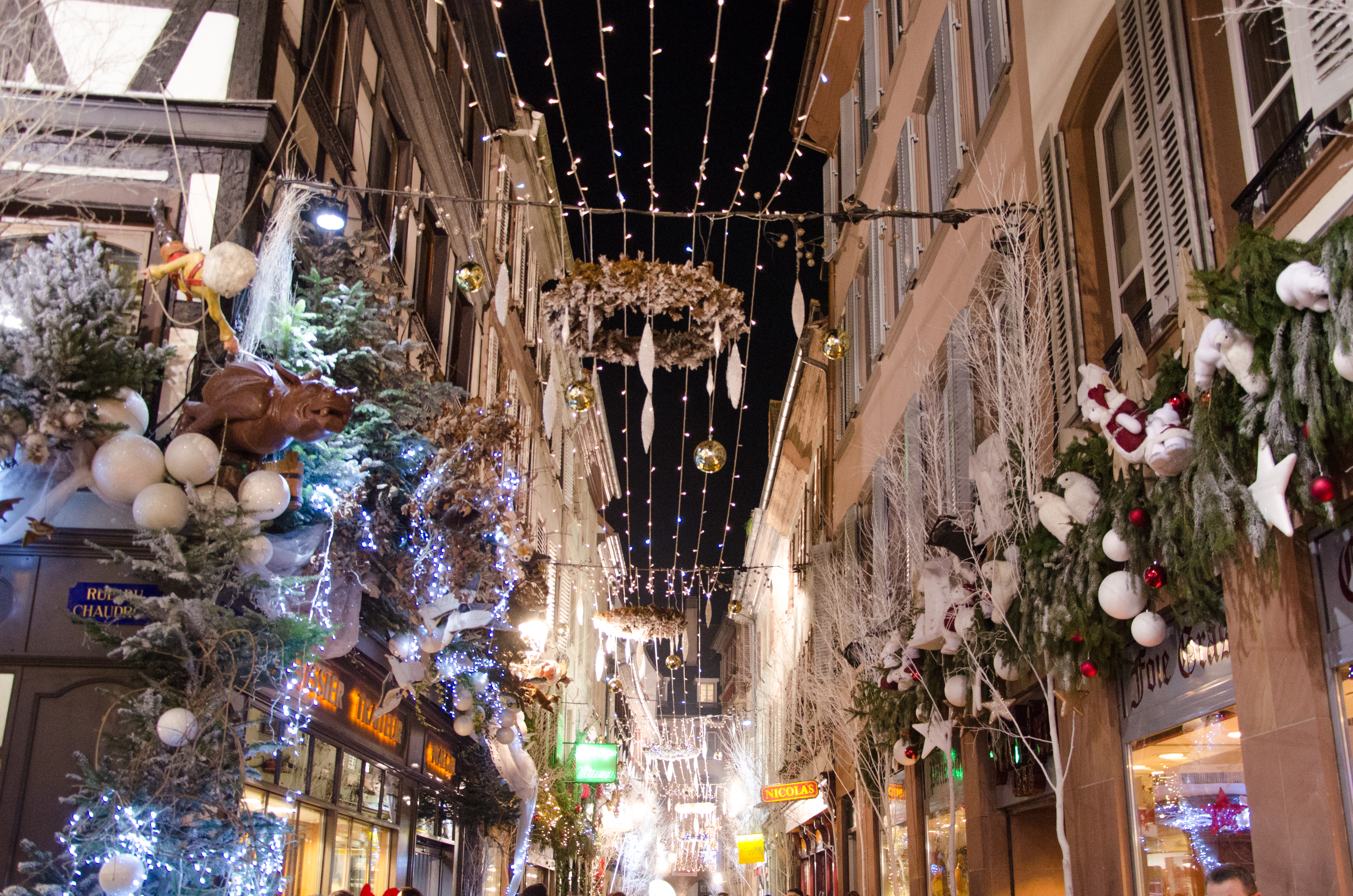 La rue des Orfèvres est une des plus belles de Strasbourg une fois le marché de Noël installé. Le lutin est cette fois ci accompagné d'une gargouille et de tout un attirail de décorations.